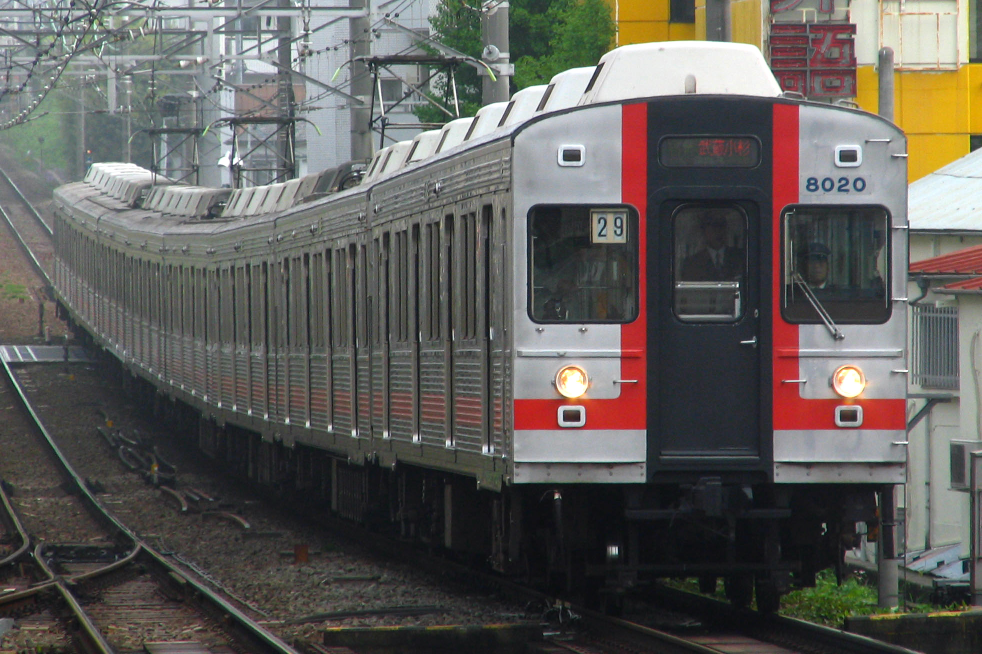 Tokyu Electric Railway TYPE-8000 at Jiyugaoka station, Tōyoko Line. This color scheme is called Kabuki.